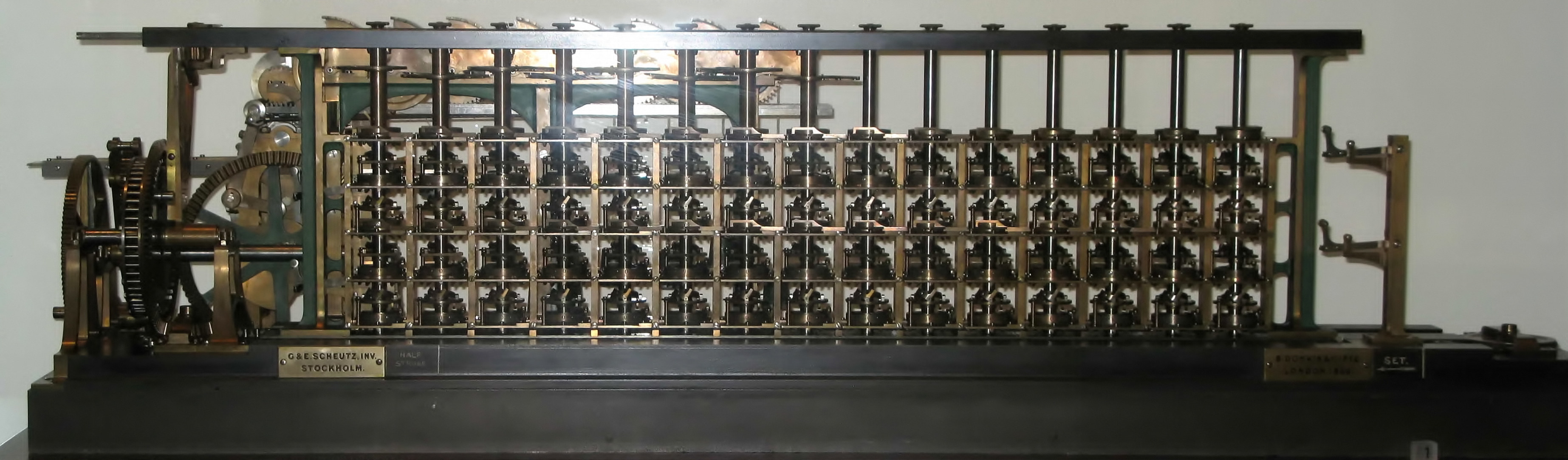 The third Difference engine (Scheutz No. 2) built by Per Georg Scheutz, Edvard Scheutz and Bryan Donkin.